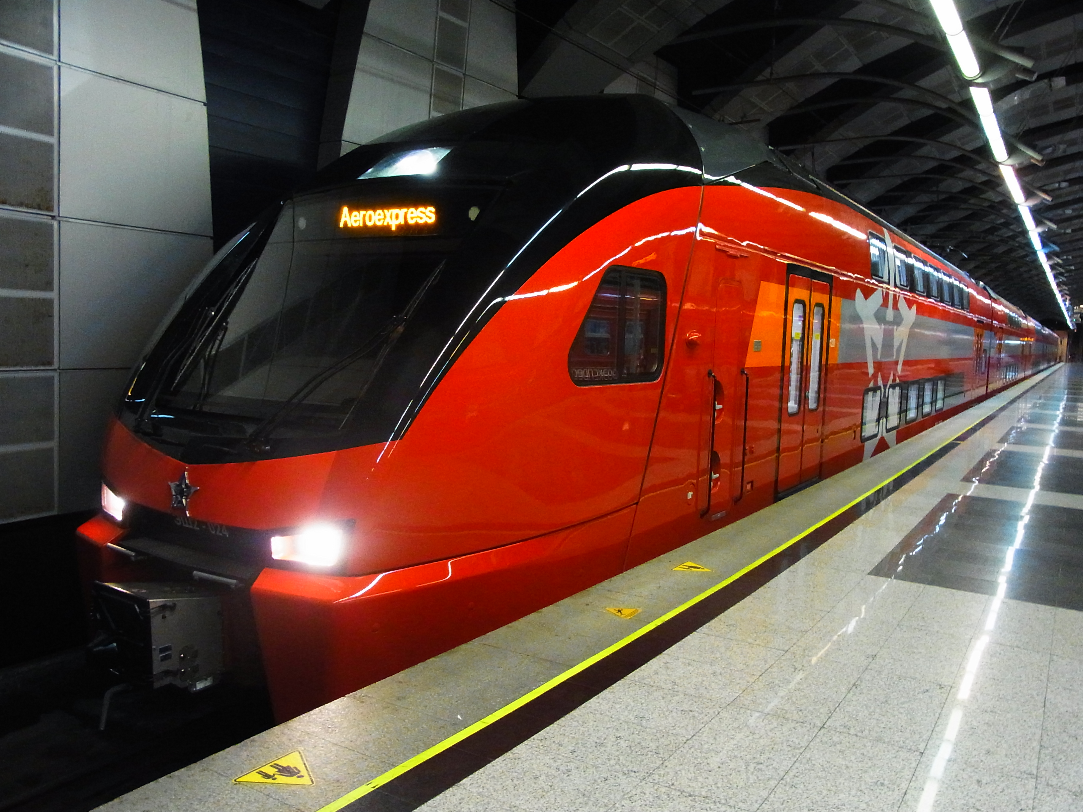 Electric multiple unit ESh2-024 at Vnukovo airport station in Moscow, Russia